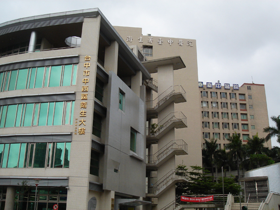 Taichung Hospital, Department of Health, Executive Yuan (right) and West Central District Public Health Building, Taichung City (left).